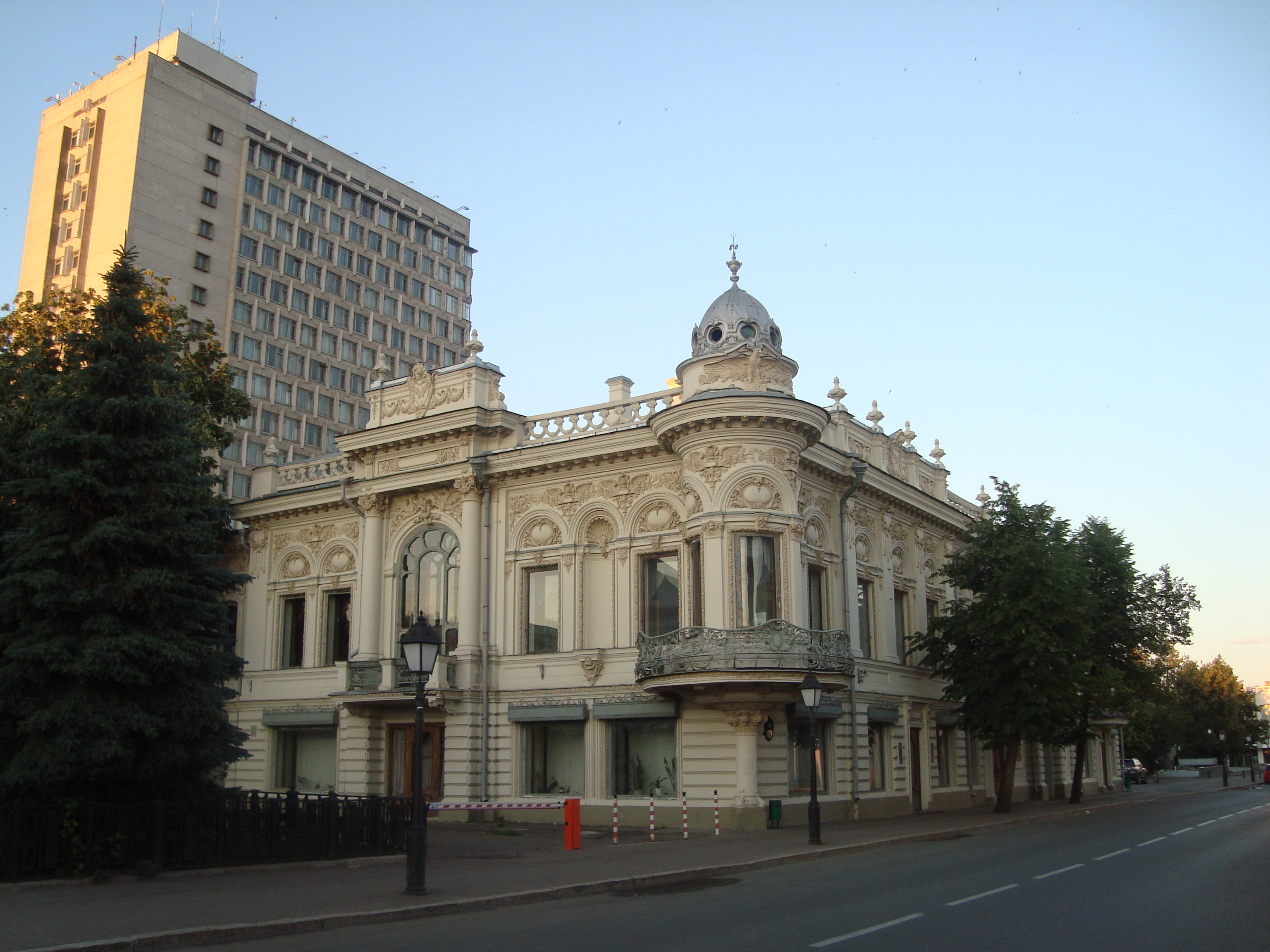 Kazan State Univerity's new academic building and Tatar State Library